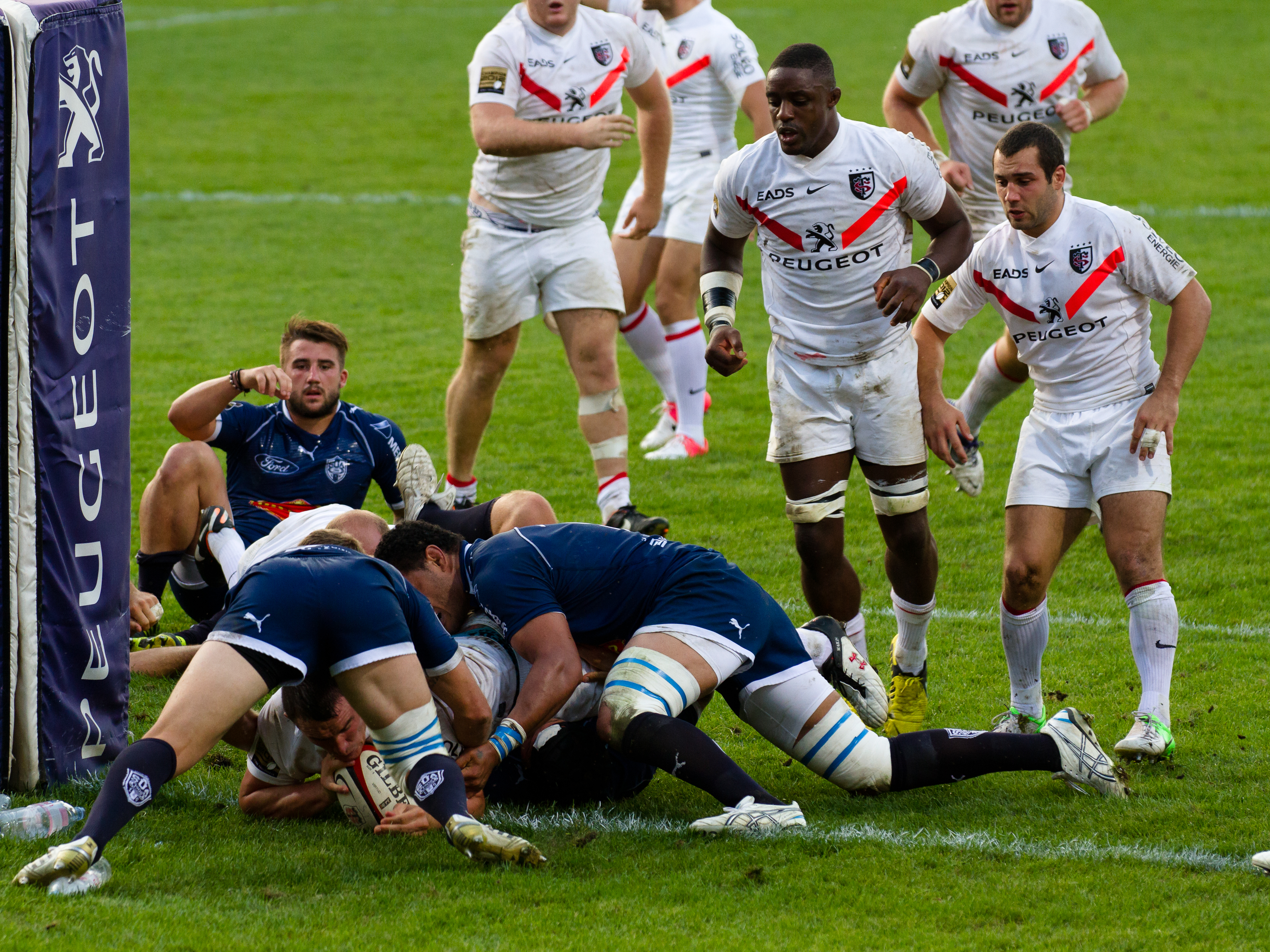 Top 14 — 8 September 2012, Stade Ernest-Wallon. Match between: Stade toulousain — SU Agen